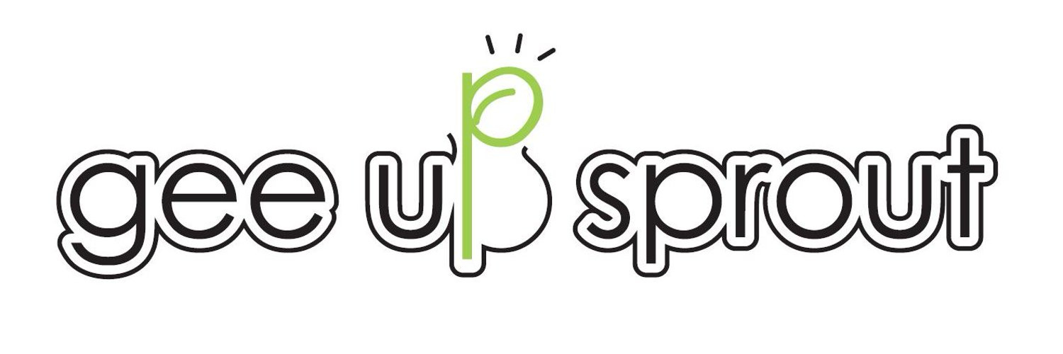 geeupsprout